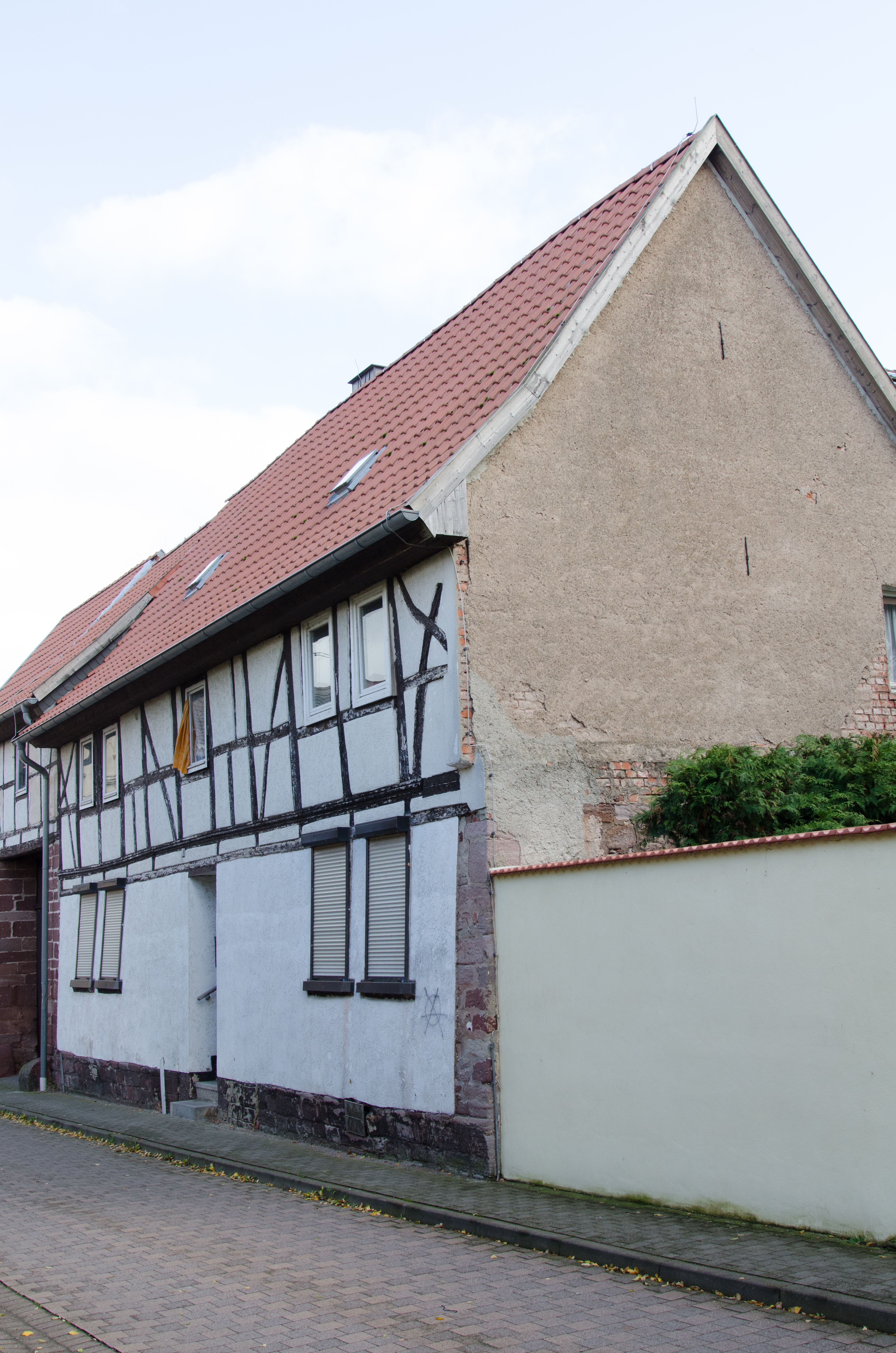 Kelbra, Thomas